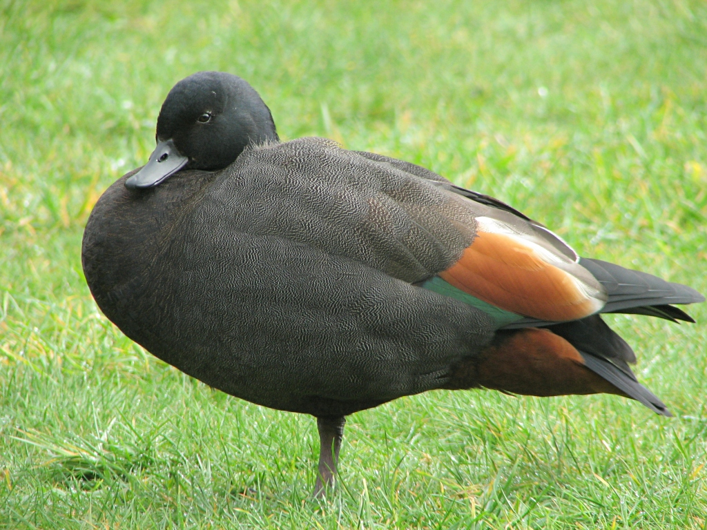 Male (black head, barred black body) Tadorna variegata, Paradise Shellduck, Pūtangitangi. Native to New Zealand. At the Karori Wildlife Sanctuary, Wellington New Zealand. (See also Karori Wildlife Sanctuary). Canon S2 with a Sony VCL-DH1758 1.7x tele conversion lens coupled via a Lensmate 58mm adaptor. Boosted the fill-light using Picasa, then used The Gimp to reduce to 1024x768 with a small amount of USM.